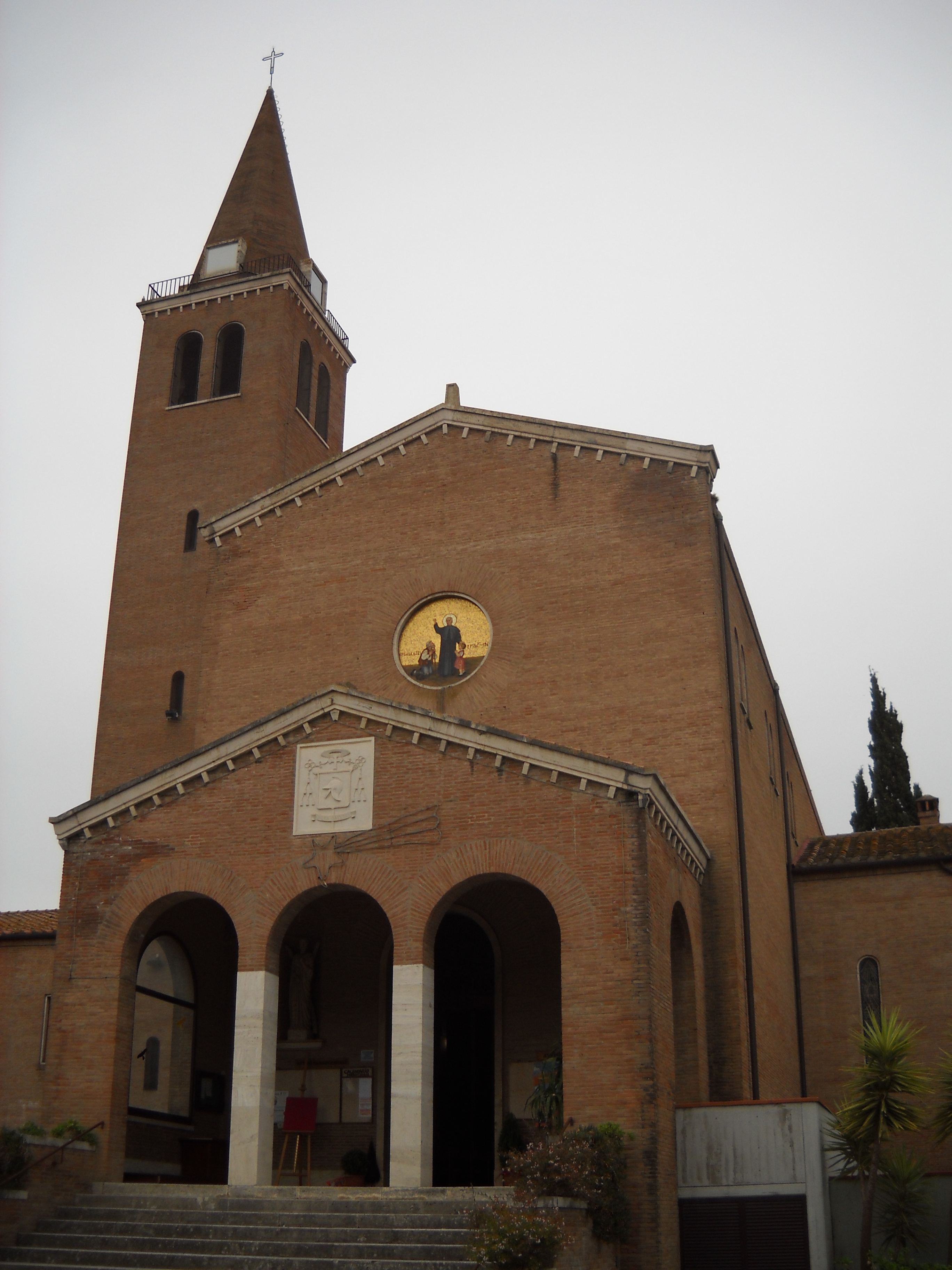 Ernesto Ganelli, church of San Giuseppe Benedetto Cottolengo in Grosseto